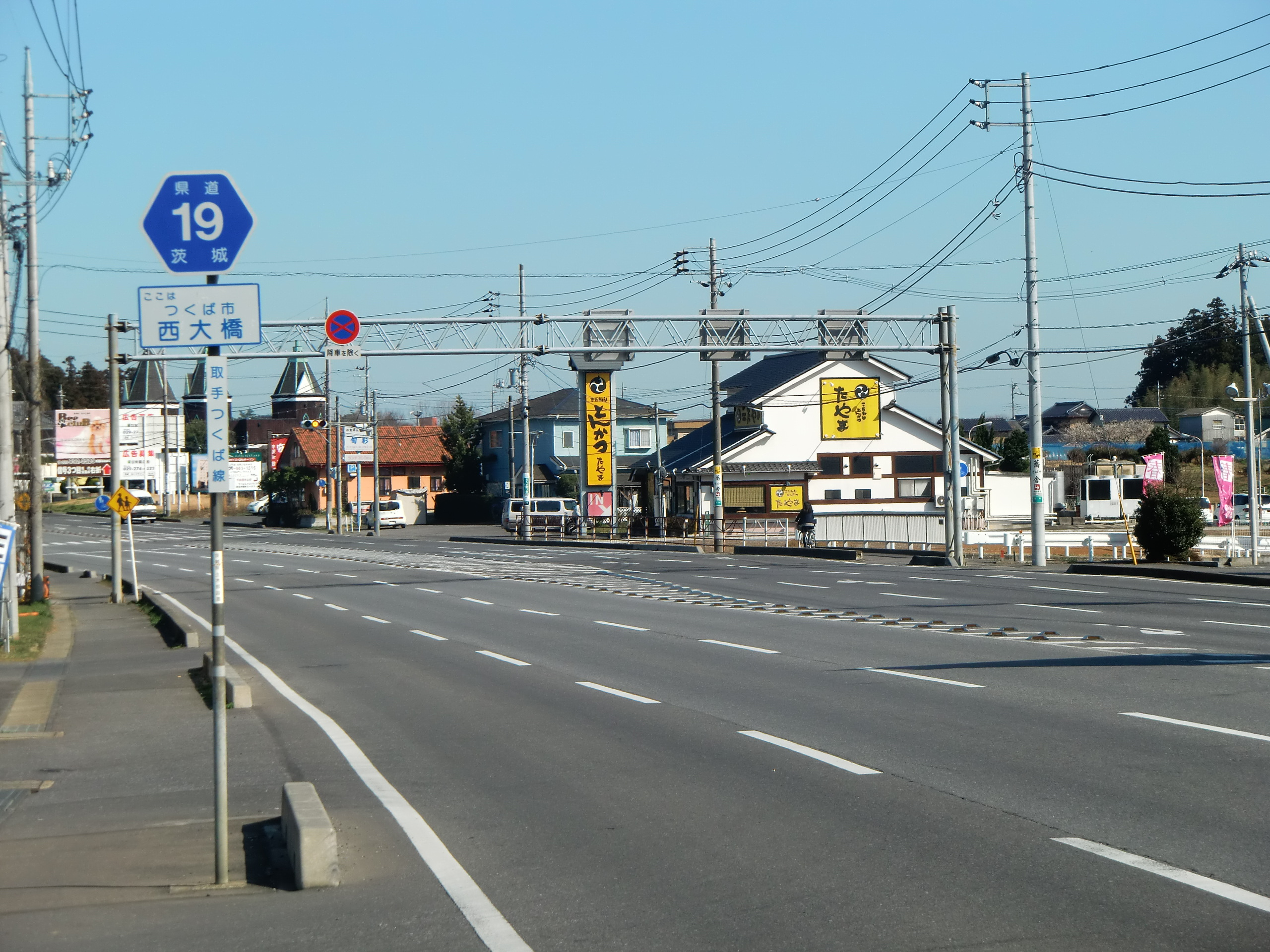 Ibaraki prefectural road 19(Toride-Tsukuba line) in Nishiōhashi, Tsukuba city, Ibaraki prefecture, Japan.